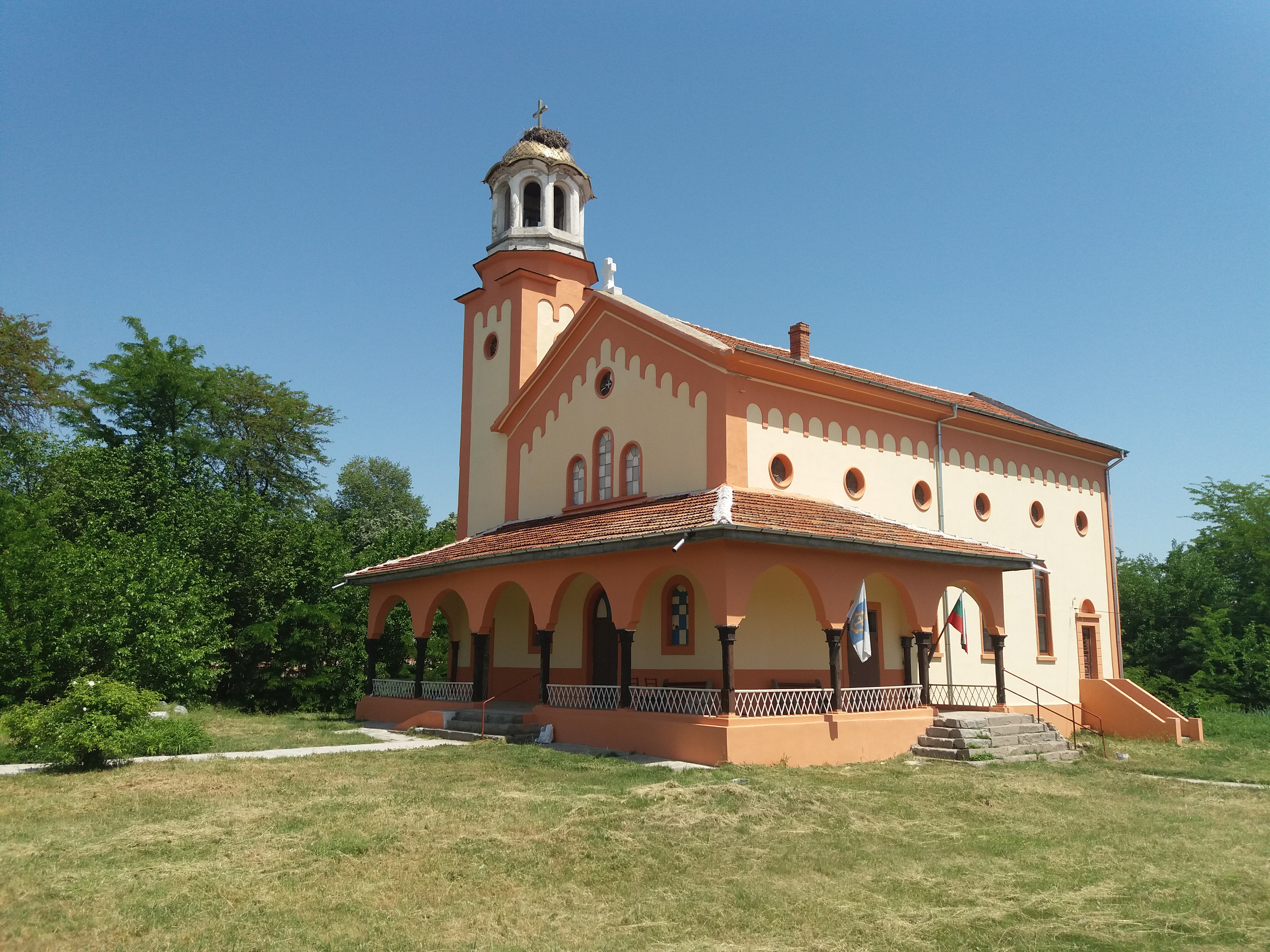 Church in Popovitsa